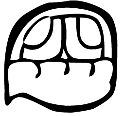 Maya:glyph:logogram:calendric:Tzolkin:Day03:Akbal:codex+W:v01. Img created by CJLL Wright.